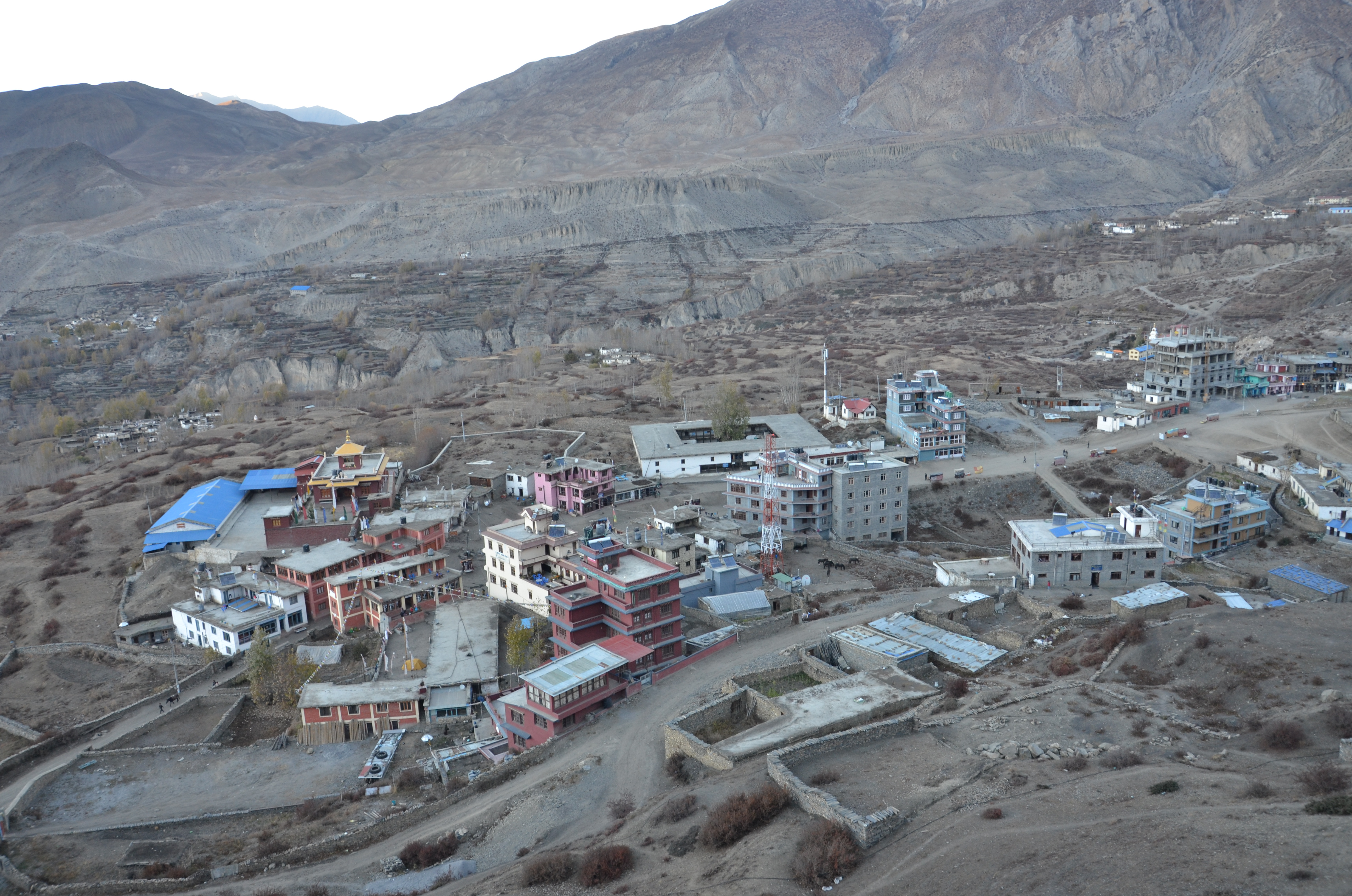 Rupakot Mustang